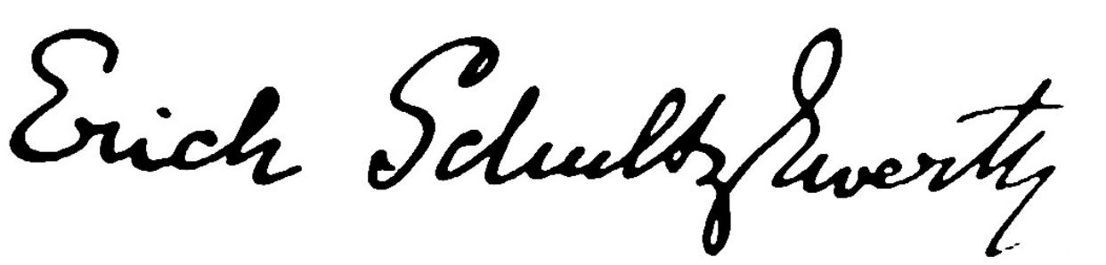 From the book “memories of Samoa